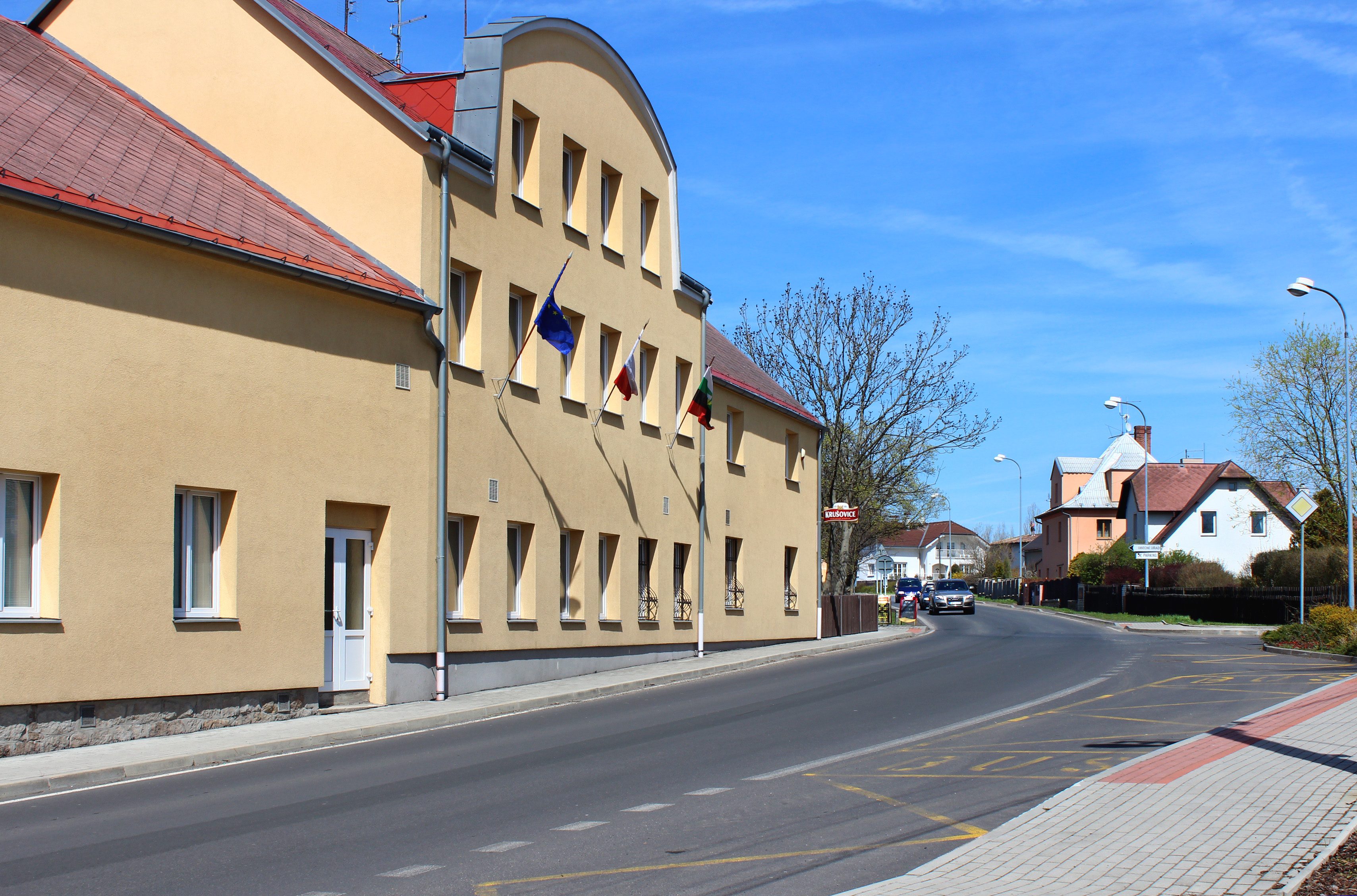 Municipally office in Kolová village, Czech Republic